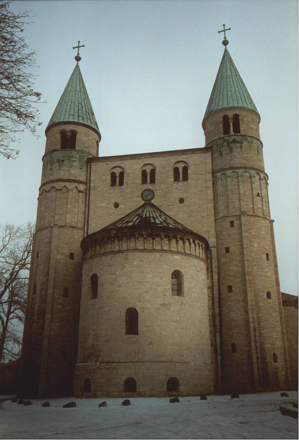 Church of St. Cyriacus, Gernrode, Germany